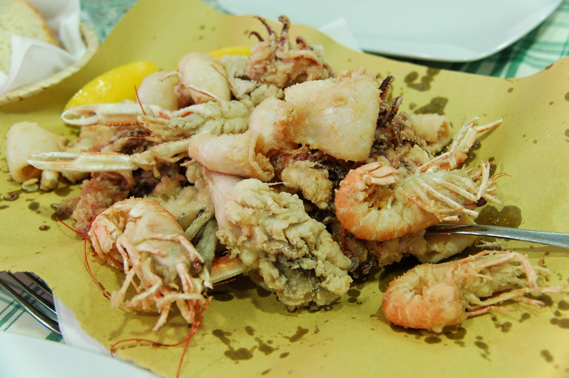 Frutti di Mare